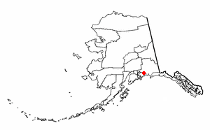 Adapted from Wikipedia's AK borough maps by Seth Ilys.